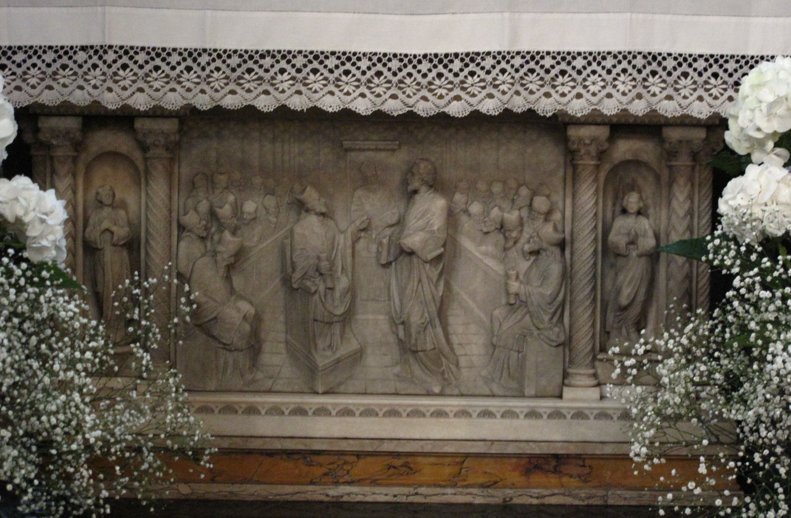 Funeral urn of Saint Senator bishop of Milan. Chapel in left side of Basilica di Sant'Eufemia - Milan. Sculpture by Cesare da Briosco, c. 17th century